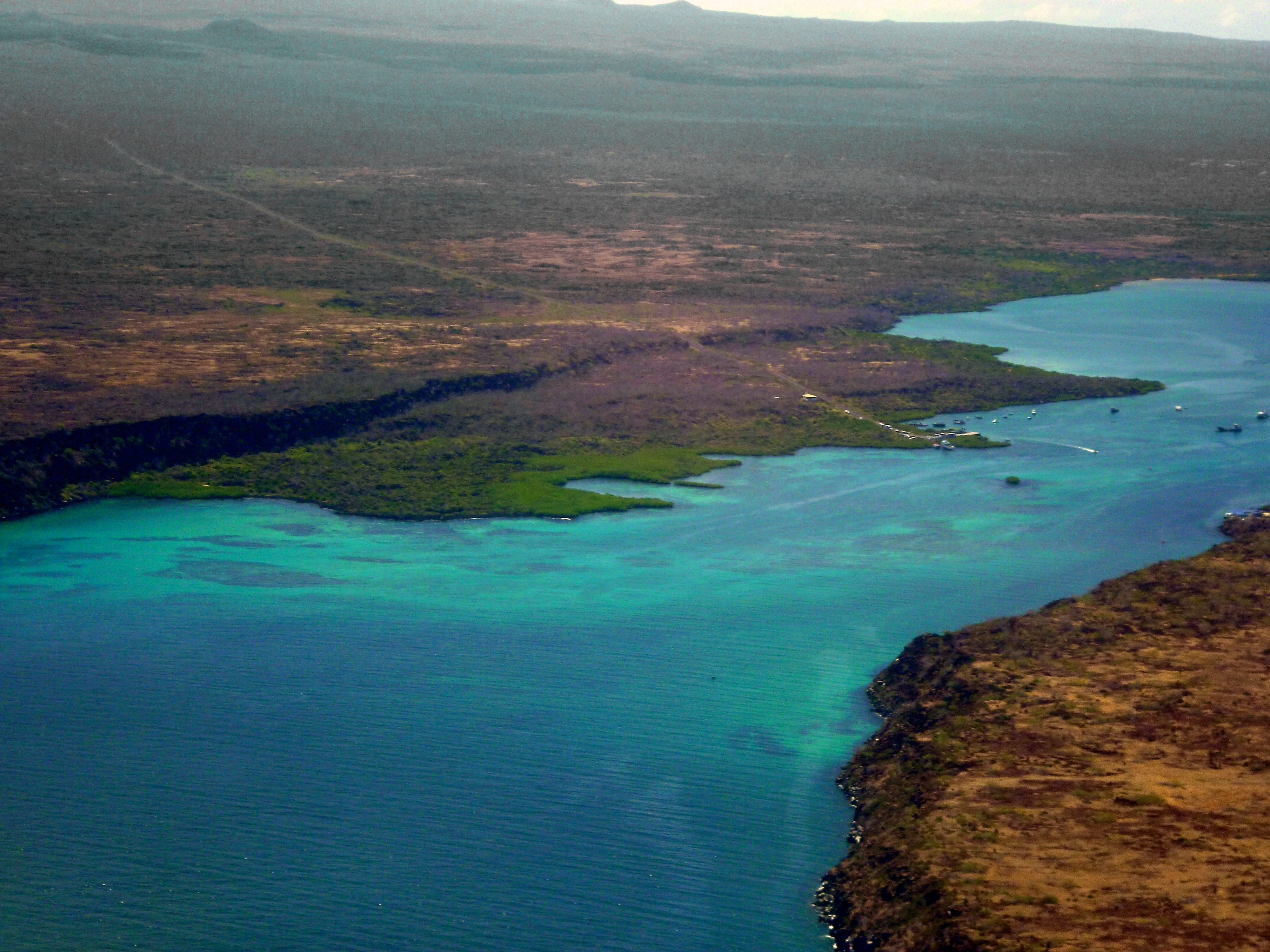 Professional photographer David Adam Kess took this photograph while flying out of Baltra Island (on the right - the Island with the airport). This photo shows Santa Cruz(on the left with the one road leading to Puerto Ayora. Also note the center of the photograph with the Itabaca Channel, a navigational waterway that allows for traffic between the Island with the airport ( Baltra ) to ( Santa Cruz )